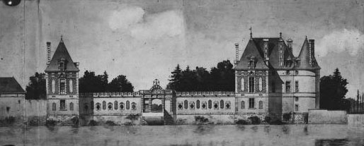 Château de Selles-sur-Cher by Pierre Chauvallon from 1913 renovation